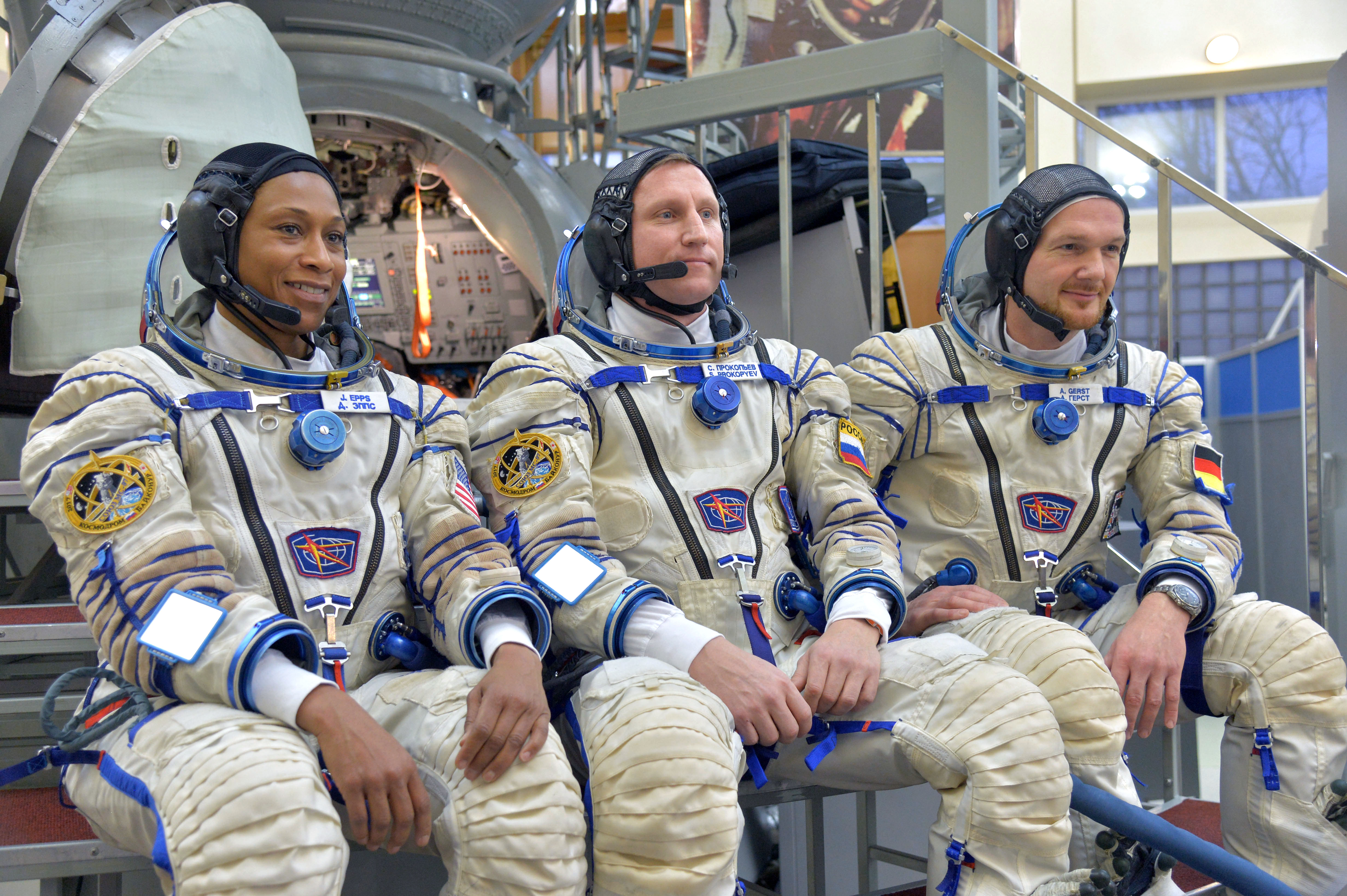 At the Gagarin Cosmonaut Training Center in Star City, Russia, Expedition 54-55 backup crewmembers Jeanette Epps of NASA (left), Sergey Prokopyev of the Russian Federal Space Agency (Roscosmos, center) and Alexander Gerst of the European Space Agency (right) answer reporters’ questions Nov. 28 as part of their final qualification exam activities. They are serving as backups to the prime crew, Anton Shkaplerov of Roscosmos, Scott Tingle of NASA and Norishige Kanai of the Japan Aerospace Exploration Agency (JAXA), who will launch Dec. 17 on their Soyuz MS-07 spacecraft for a five-month mission on the International Space Station.